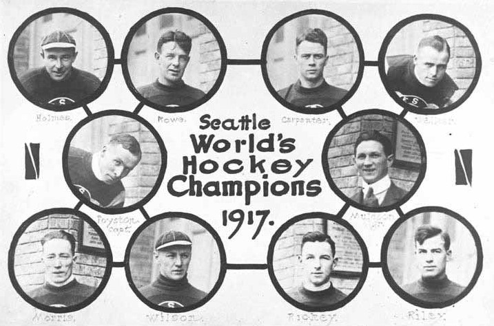 Picture of the Seattle Metropolitans hockey club in the 1916–17 PCHA season.Top row, left to right: Harry "Hap" Holmes, Bobby Rowe, Eddie Carpenter, Jack WalkerMiddle row, left to right: Frank Foyston, Pete MuldoonBottom row, left to right: Bernie Morris, Cully Wilson, Roy Rickey, Jim Riley